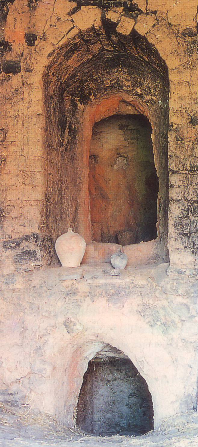 Two floors and circular Arabic oven. Navarrete, La Rioja (Spain) Martinez Glera thesis. Consejería de Cultura.